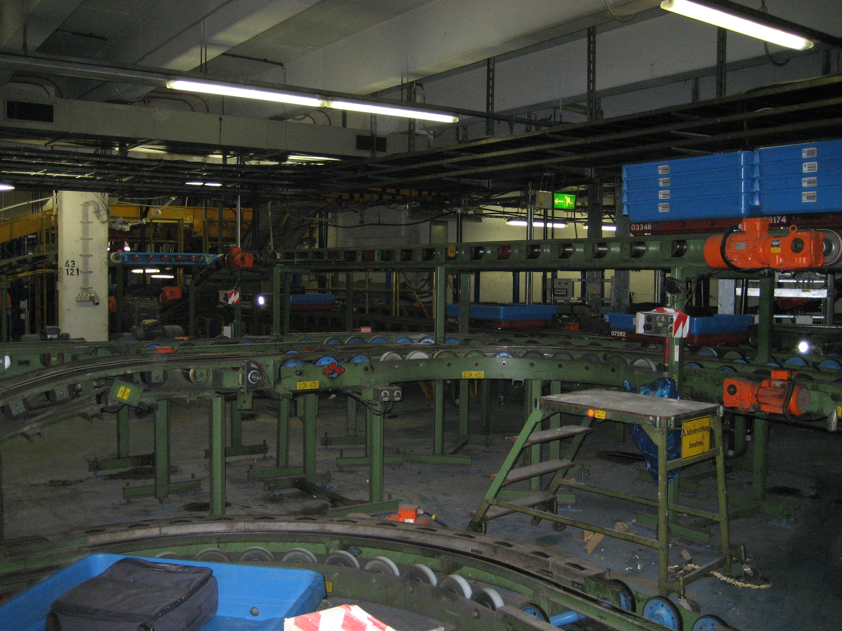 Frankfurt Airport Terminal 1: conveyor belts (wheels), no containers